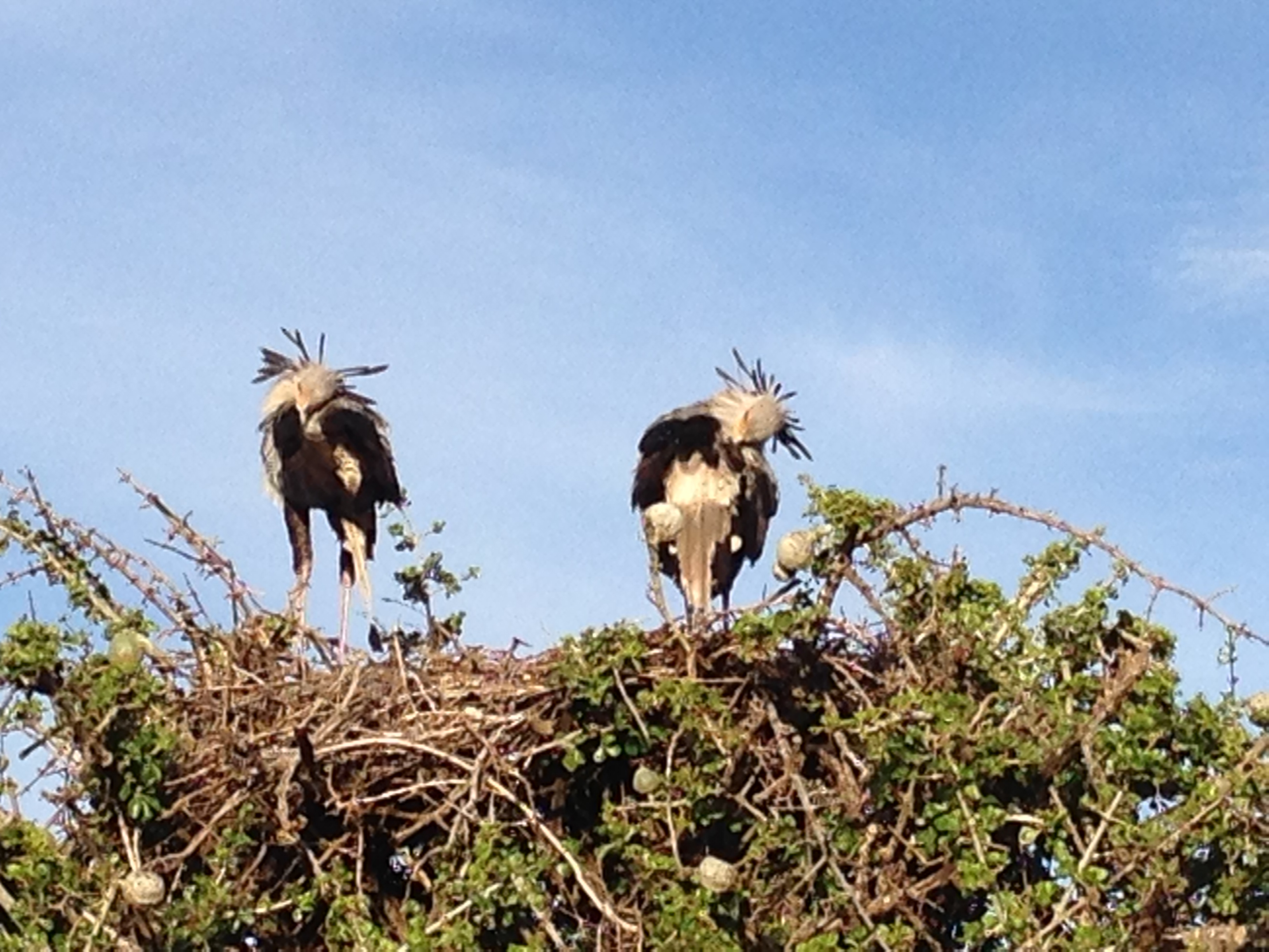 I couldn't get a very good photo of the Secretary Birds without a proper camera, but this gives an impression of their spectacular plumage